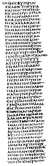 Poor quality scans of 1911 facsimile edition of 1st column of 2 John in Codex Sinaiticus